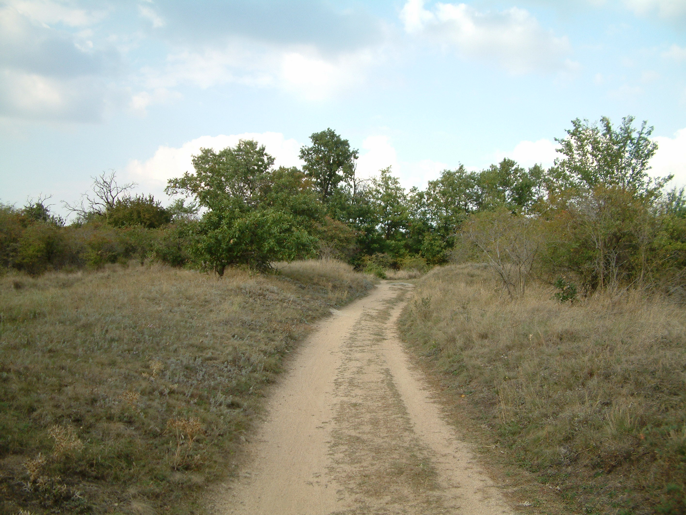 Road in Velence Hills, close to Angelika Spring